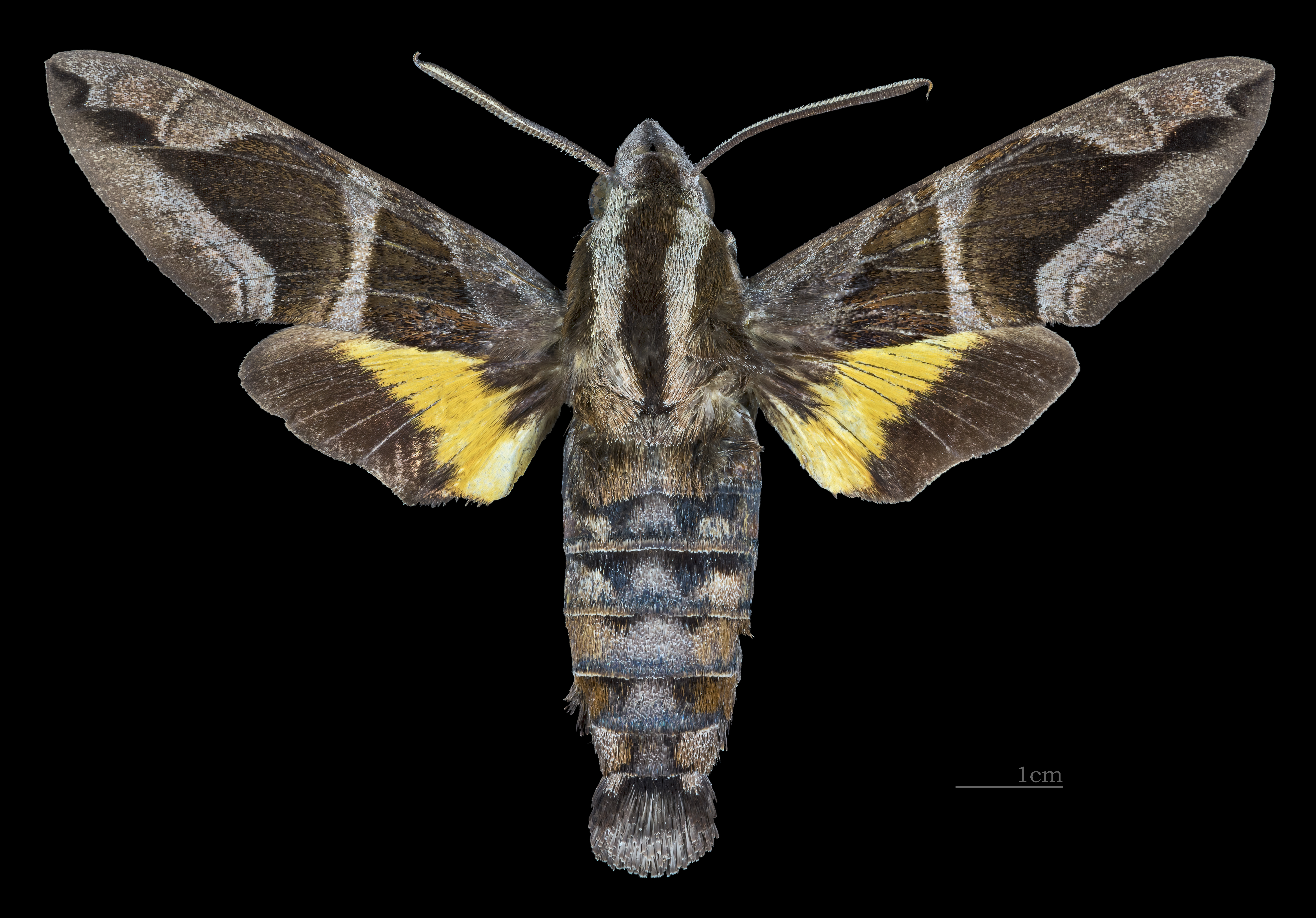 Macroglossum mitchellii - Dorsal side Collection of the Mathematician Laurent Schwartz